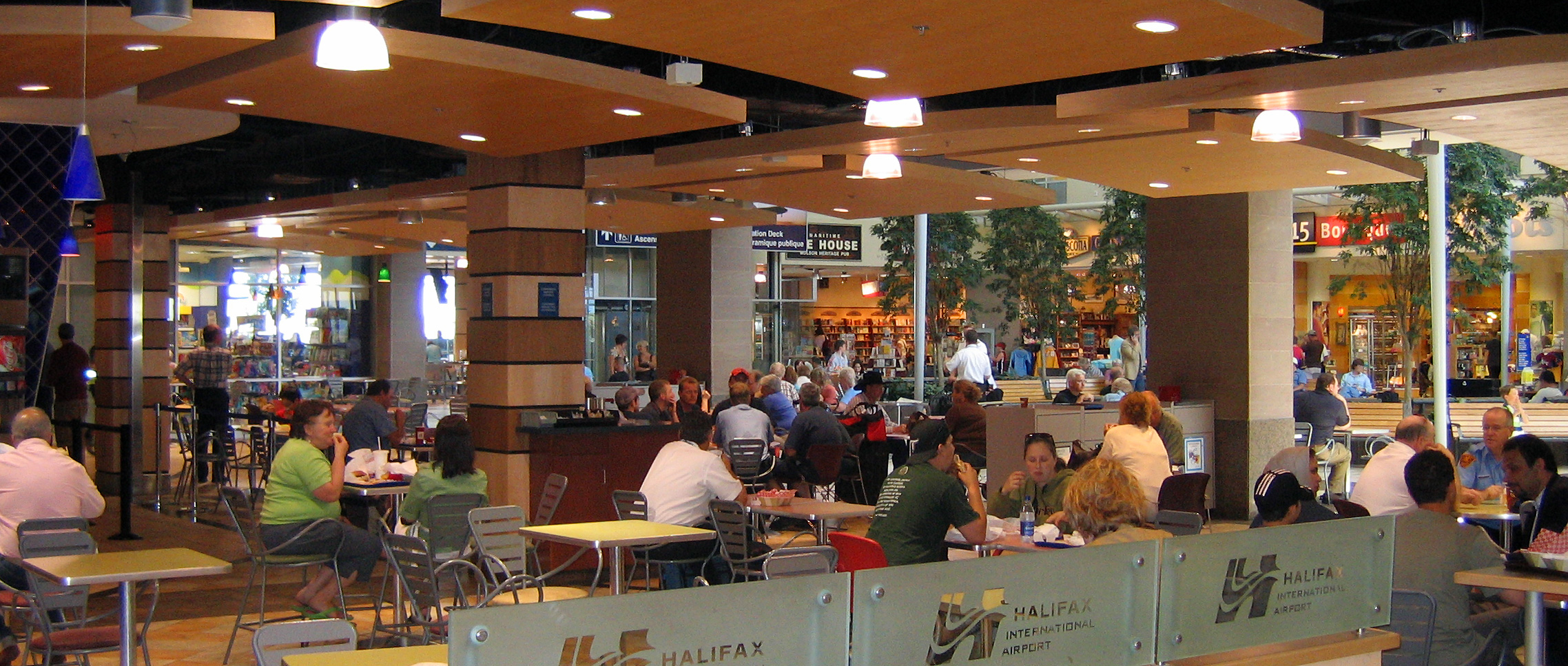 Food court at Halifax International Airport